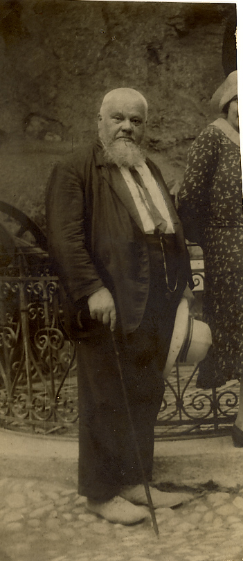 Giuseppe Chini between 1920 and 1929